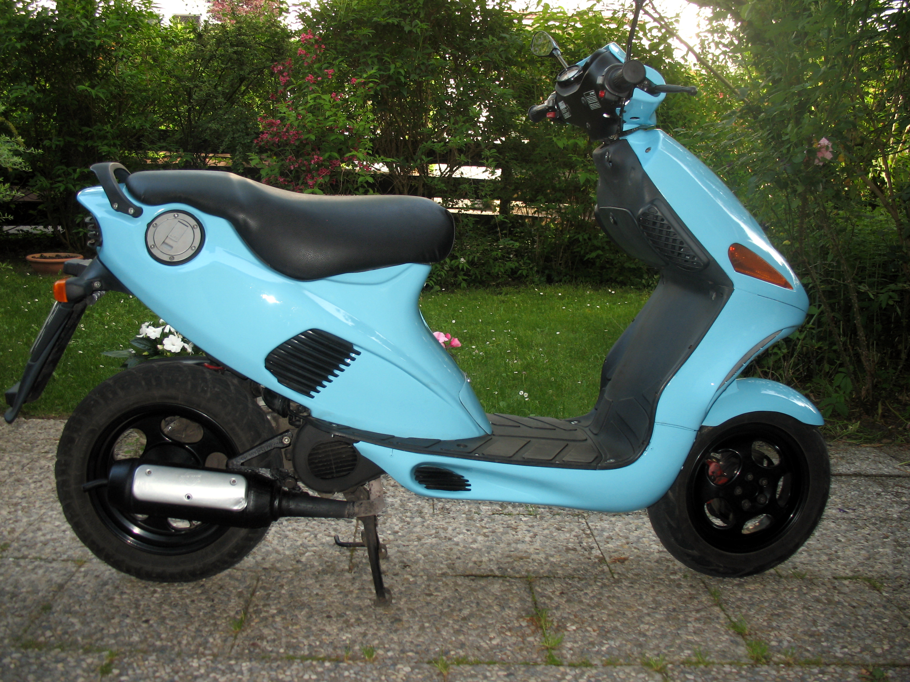 Italjet Formula 50 in light blue. Year of construction: 1998